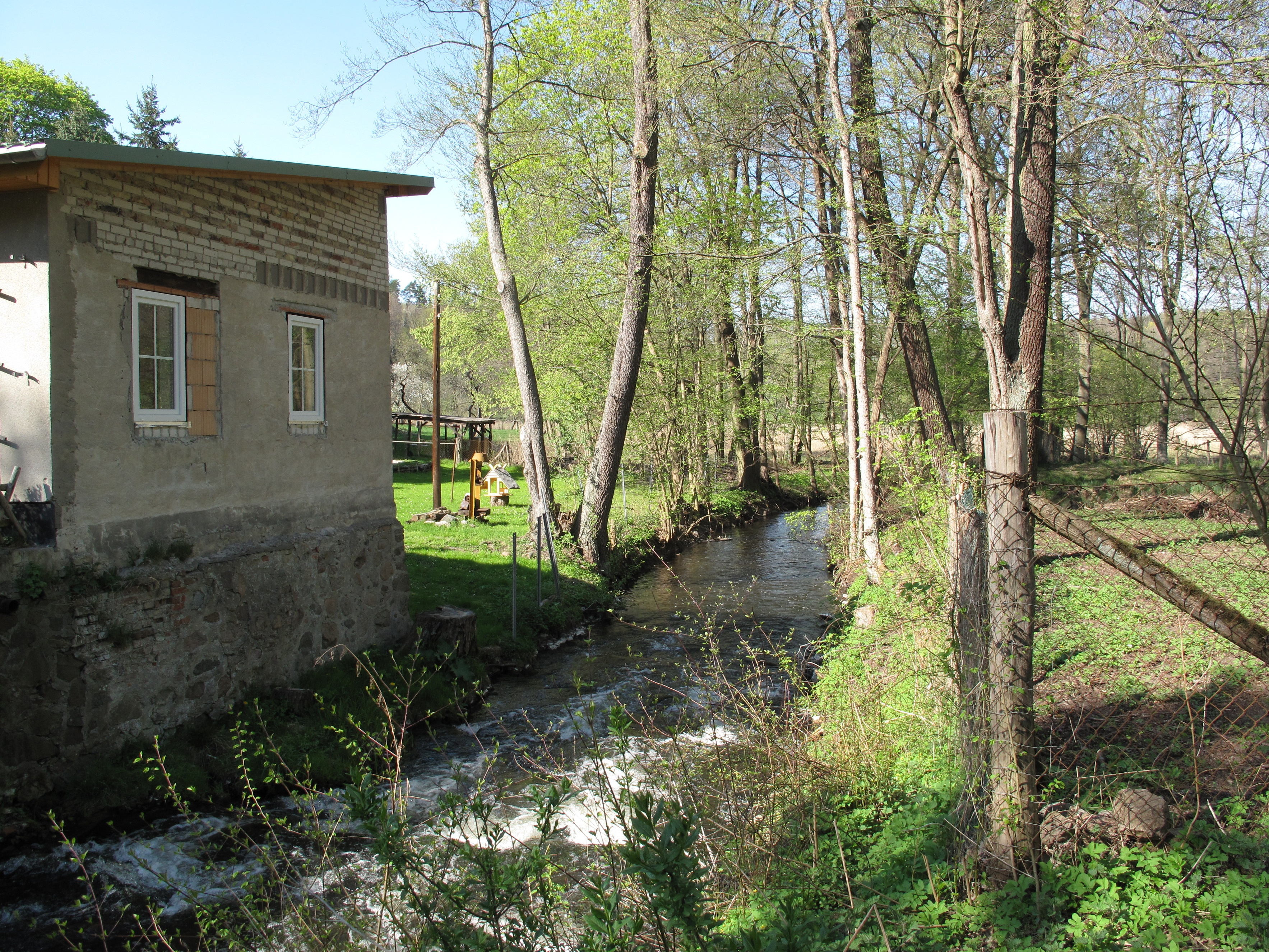 Stobber at the former Pritzhagener Mühle (water mill) with Fish ladder, which was constructed in 1994, in the municipality Oberbarnim. The Stobber (also called Stöbber) is the central river in the hill country „Märkische Schweiz“ and the Märkische Schweiz Nature Park, Brandenburg, Germany. The stream runs over a distance of 25 kilometers from the lowland moor and source area Rotes Luch towards the northeast through Buckow to the Oderbruch. The Stobber flows at Neuhardenberg to the „Friedländer Strom“, whose waters run over some canals to the Oder River → Baltic Sea. On a roughly 13 kilometer long route of its course, including the Pritzhagener Mühle, there is designated the nature protection area „Naturschutzgebiet Stobbertal“.